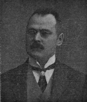 Portrait of Ferenc Harrer